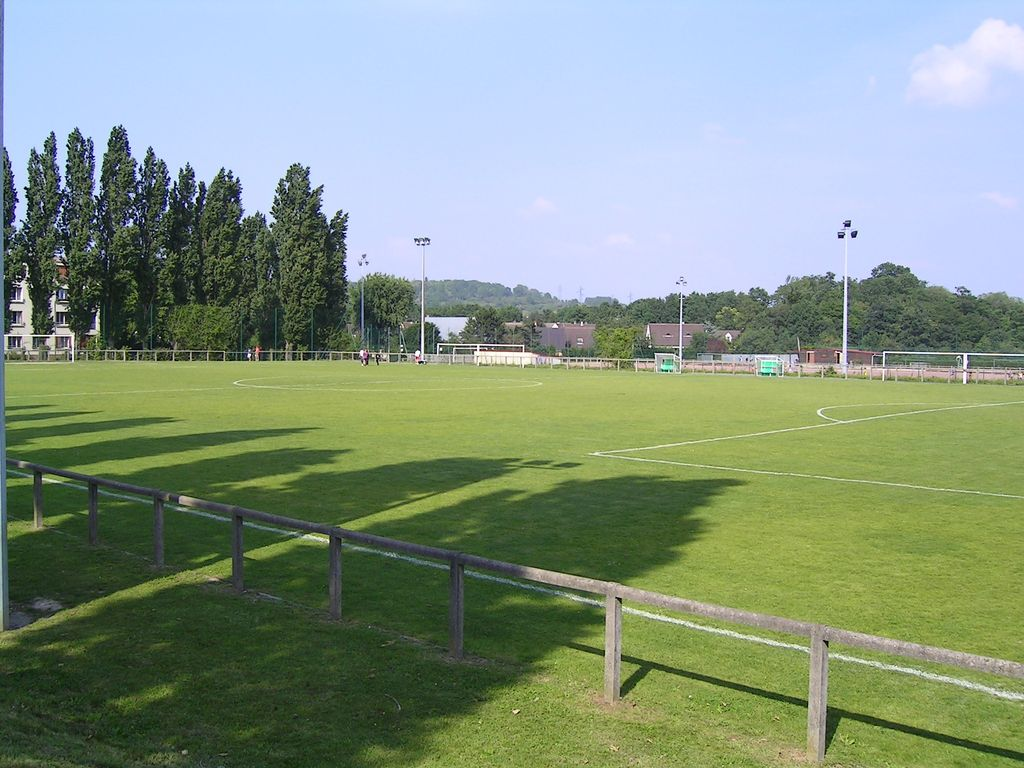 Stade Rémond Rousseau Photo personnelle (own work) de Marianna